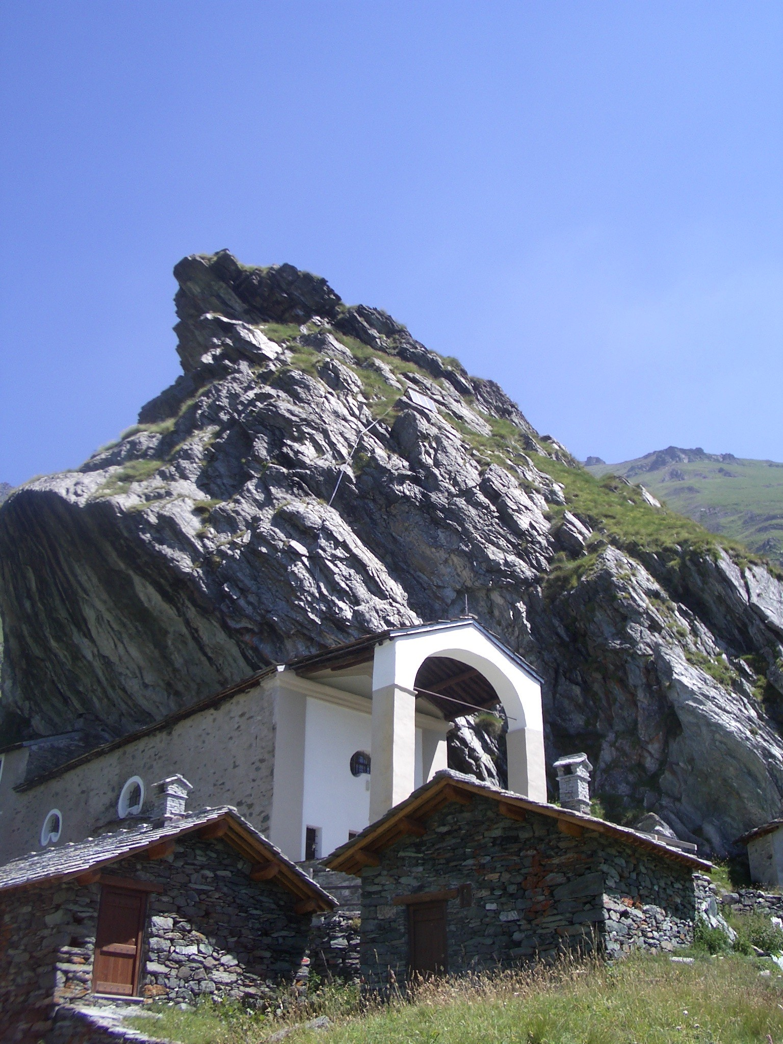 Sanctuary of San Besso, Val Soana, Piedmont, Italy